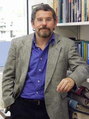 Prof. Joseph Wang